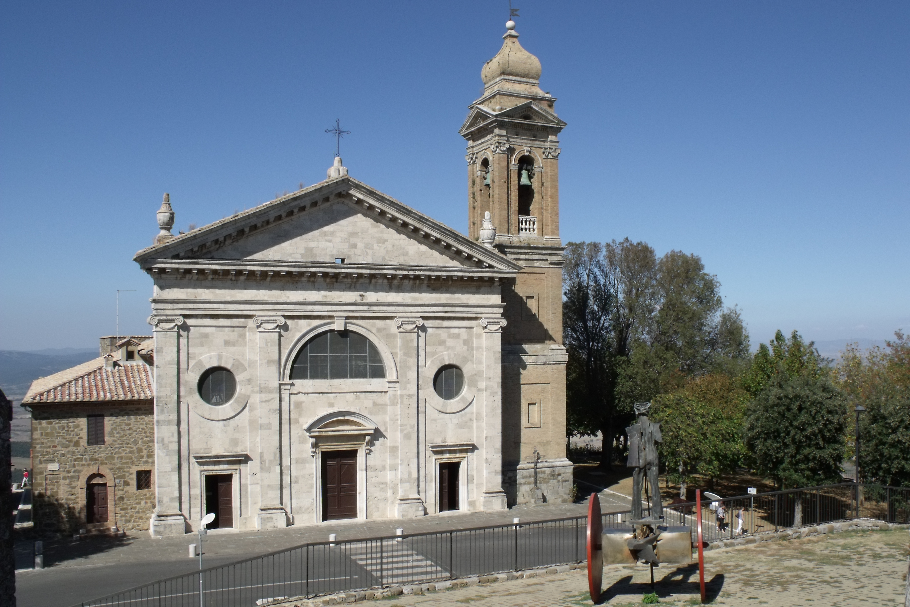 Madonna del Soccorso, Church in Montalcino, Val d’Orcia, Province of Siena, Tuscany, Italy